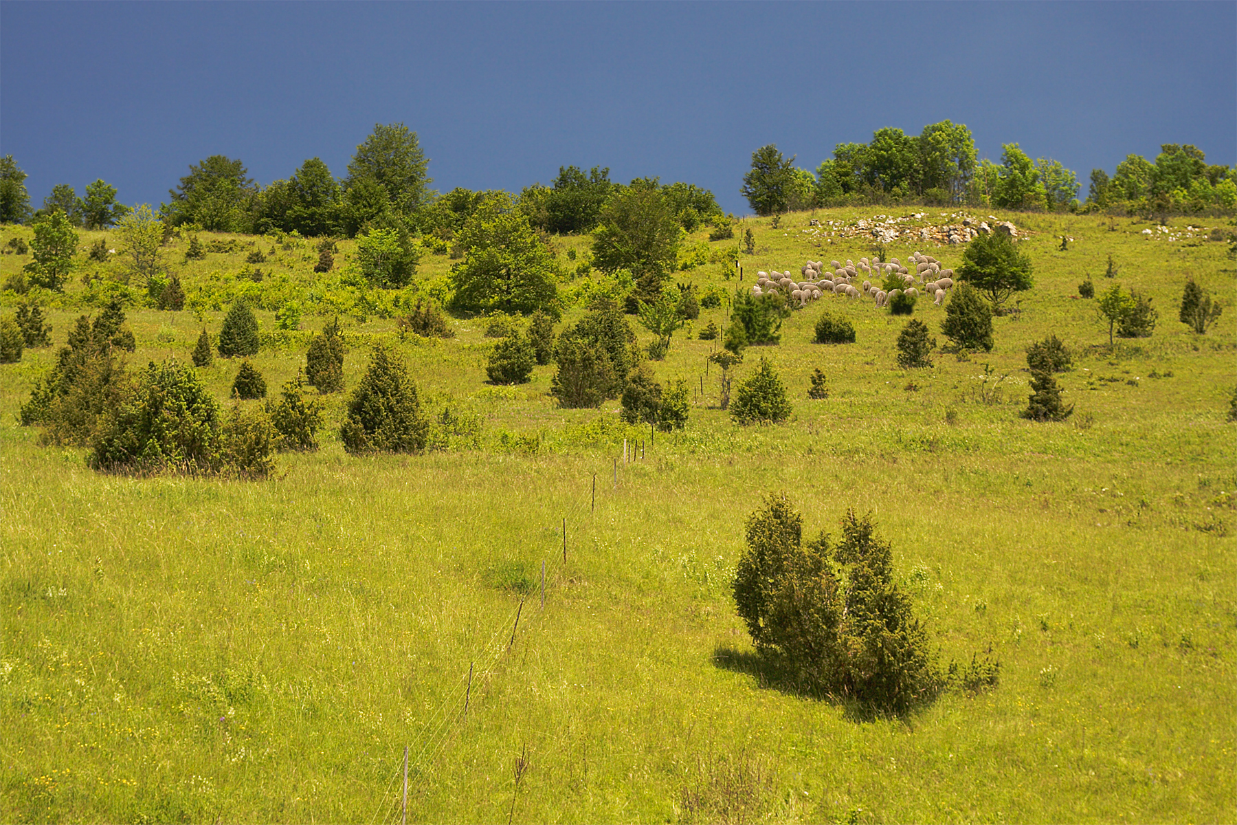 Calcareous grassland at river Große Lauter. The heath is legally protected by Naturschutzgebiet. The fence shows increasing ecological succession on its left side, while regular sheep grazing on the right maintains the typical heath character of many places of the Swabian Alb. State funds try to revive sheep keeping.